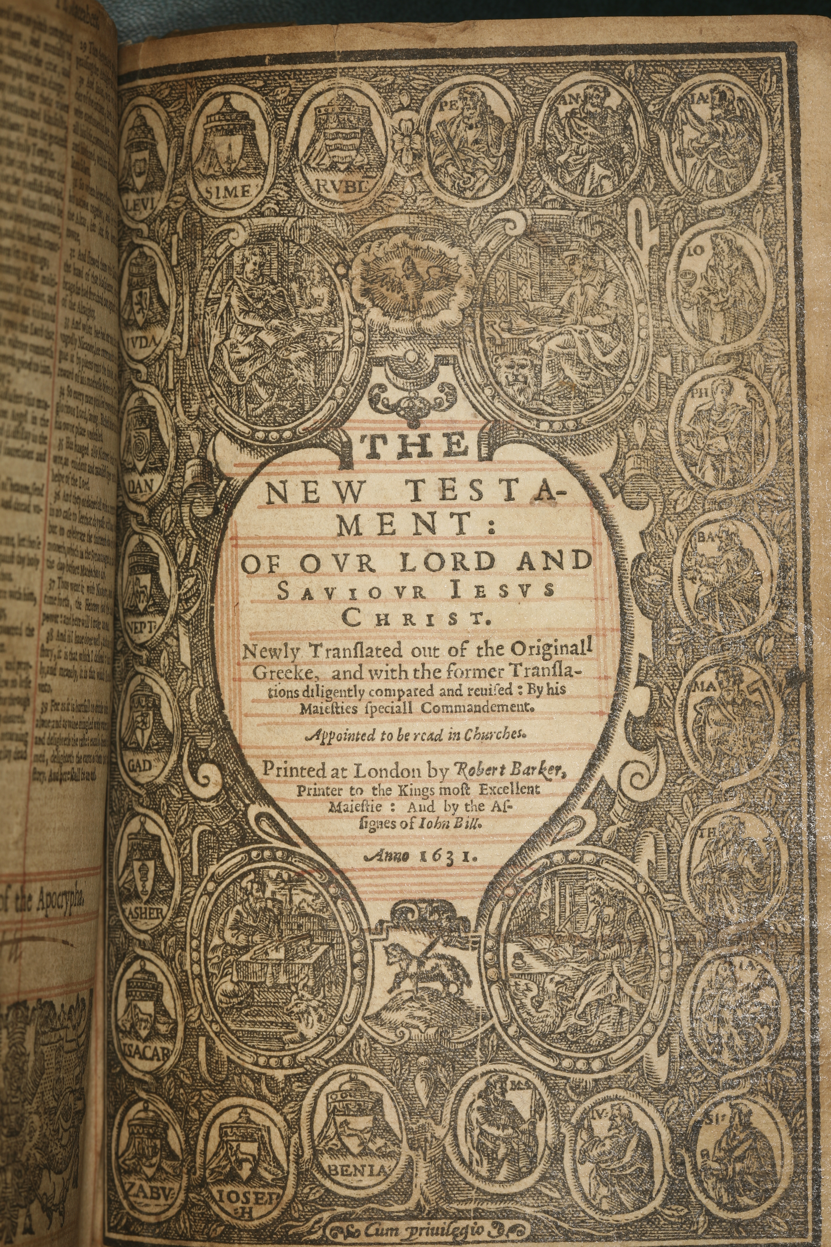 (KJV) 1631 Holy Bible, Robert Barker/John Bill, London. King James Version